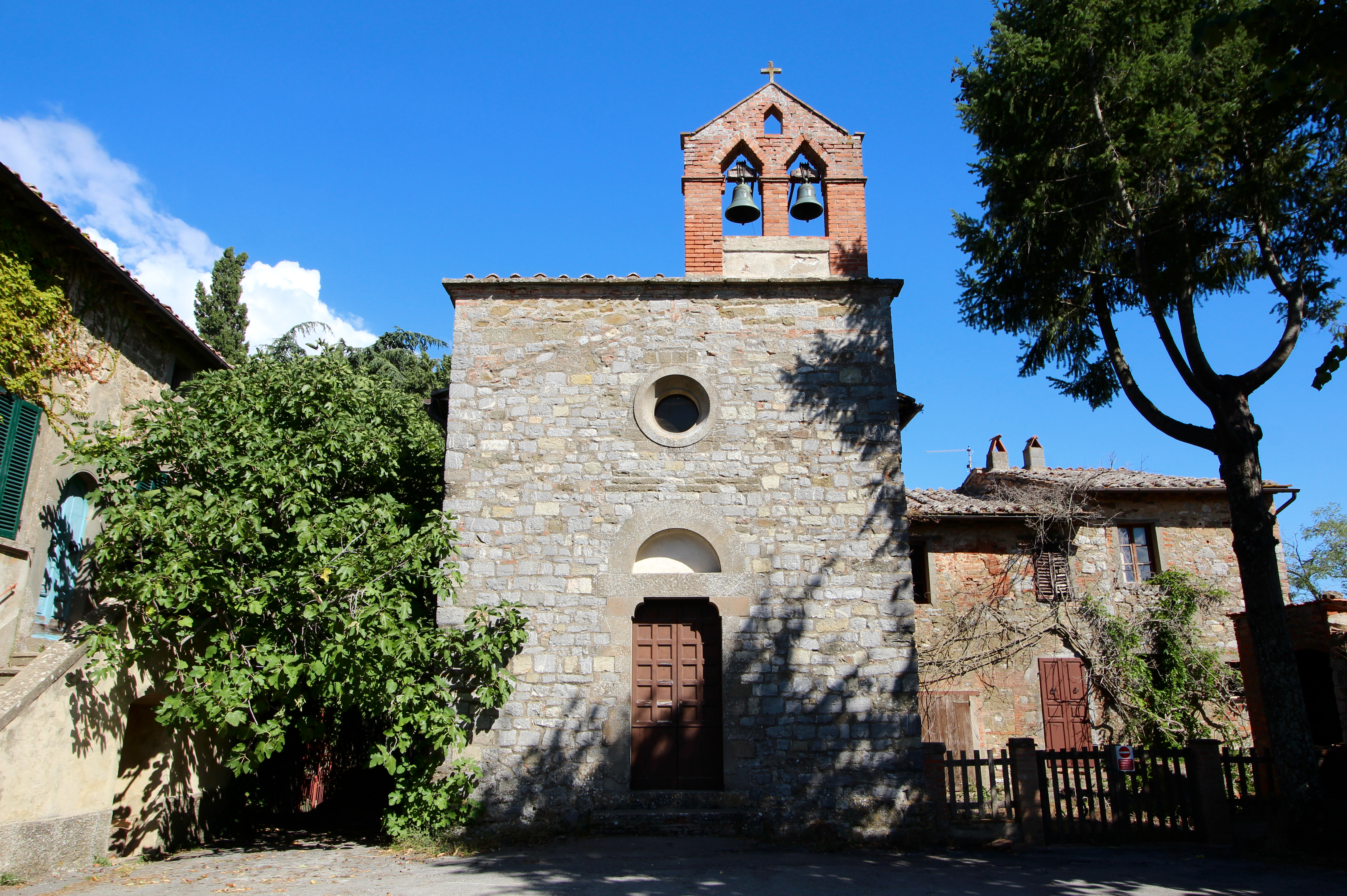 Church San Bartolomeo, Rosennano, hamlet of Castelnuovo Berardenga, Province of Siena, Tuscany, Italy